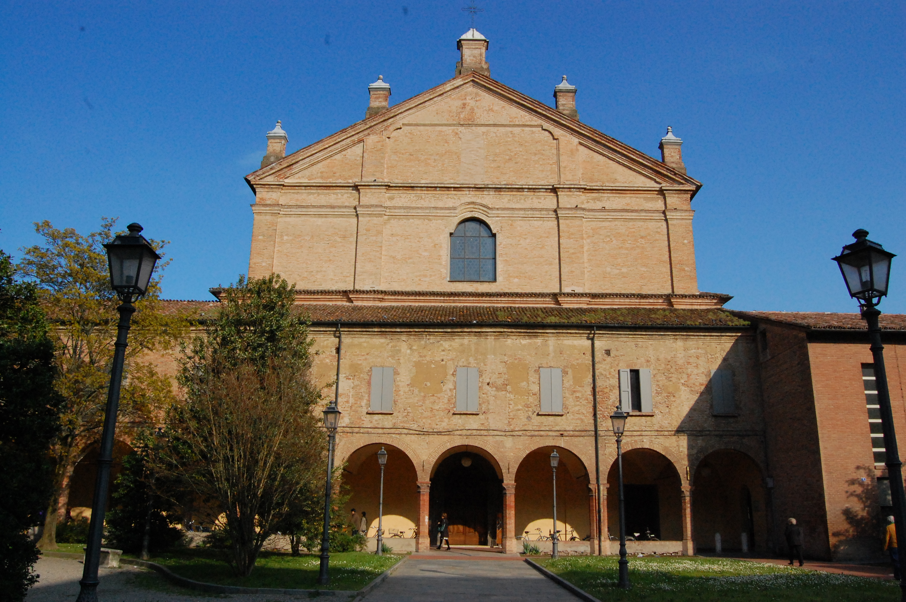 Church of Saint Nicolo' in Carpi, Modena.